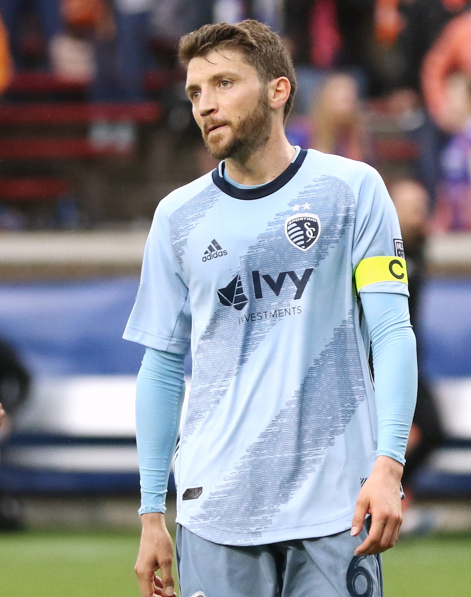 Ilie Sánchez playing for Sporting Kansas City on April 7, 2019.